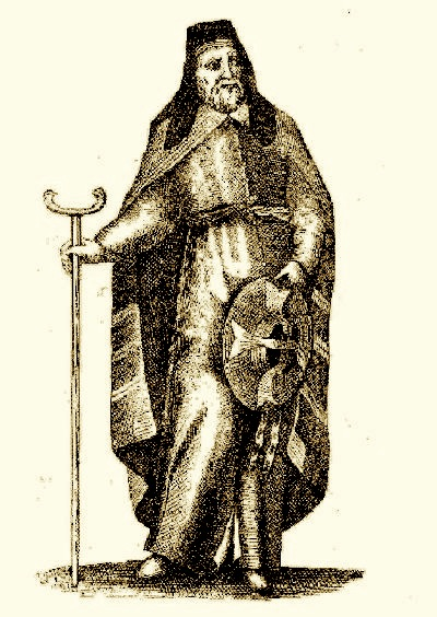 image of John XI Bekkos patriarch of Constantinopolis